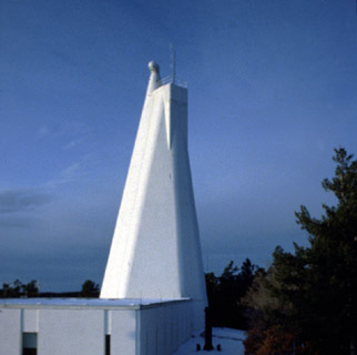 The Richard B. Dunn Solar Telescope, located at the National Solar Observatory at Sacramento Peak, near Sunspot, New Mexico.